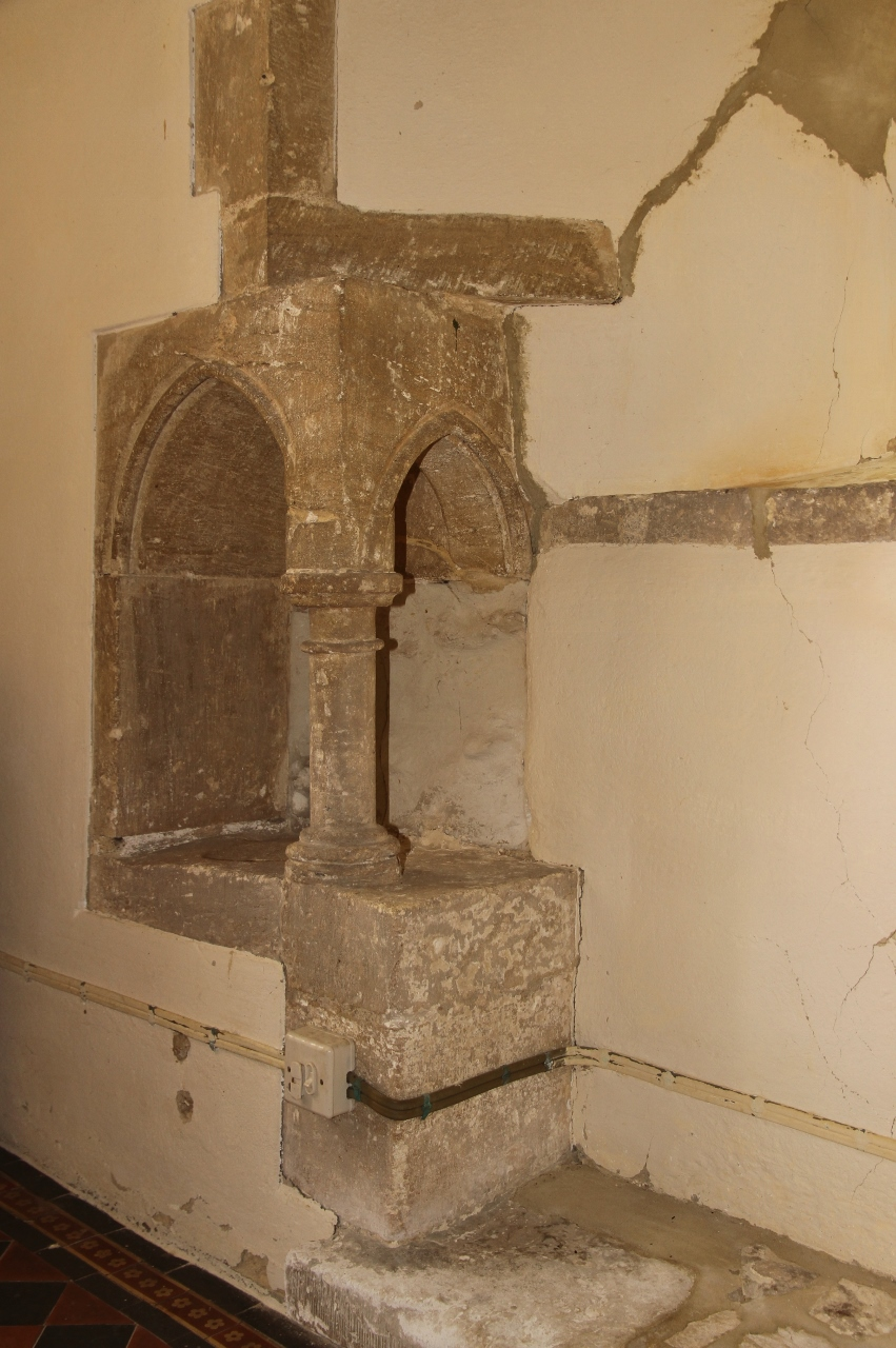 Corner piscina in the chancel of the parish church of St Nicholas, Baulking, Oxfordshire (formerly Berkshire), seen from the northwest